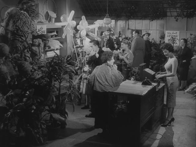 A scene from The Little Shop of Horrors.